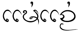 Lanna-Name of District in the North of Thailand